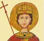 Engraving of Ivan Shishman of Bulgaria as a child. Source: Tetraevangelia of Ivan Alexander alcoron